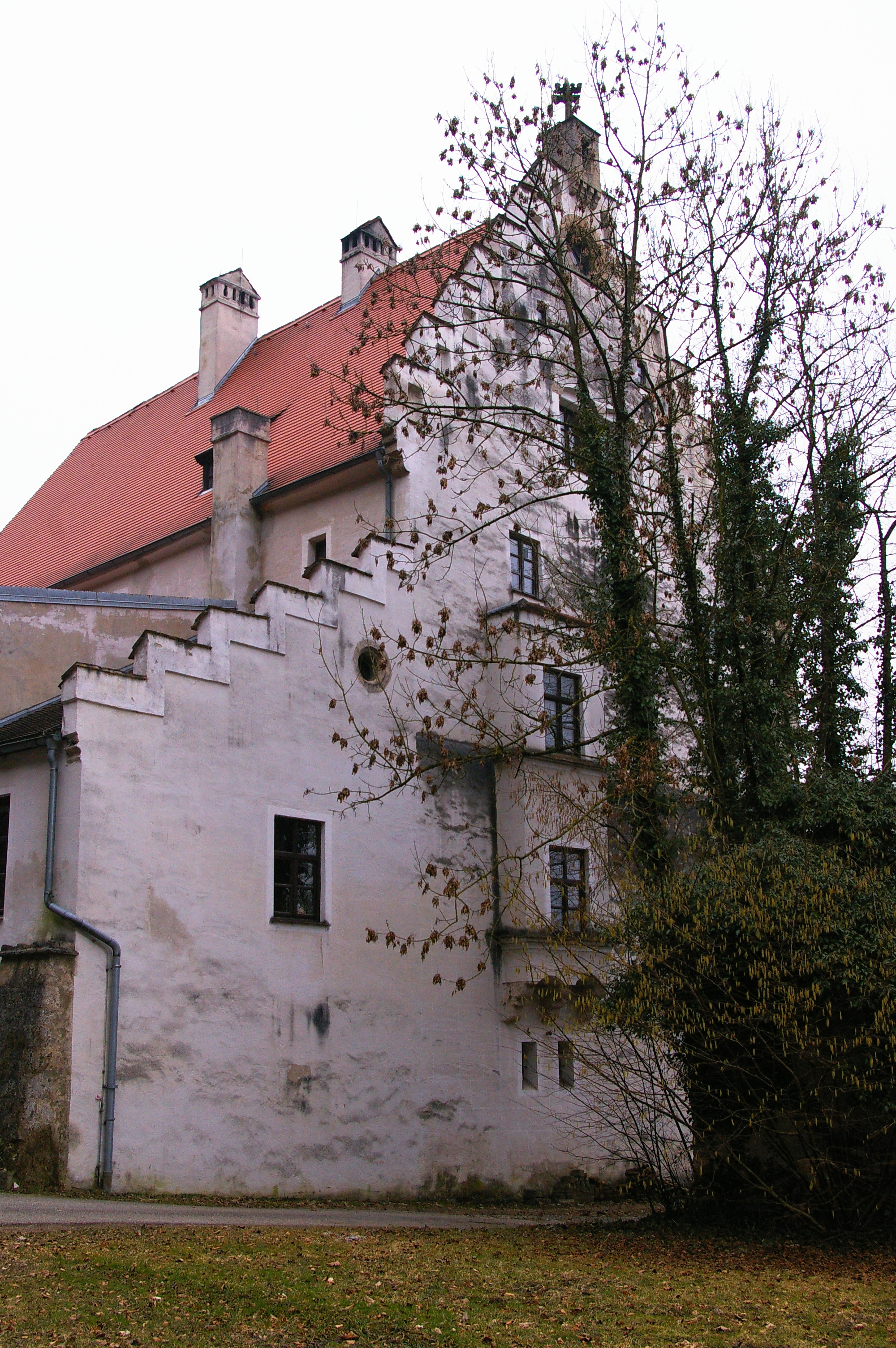 castle in upper austria